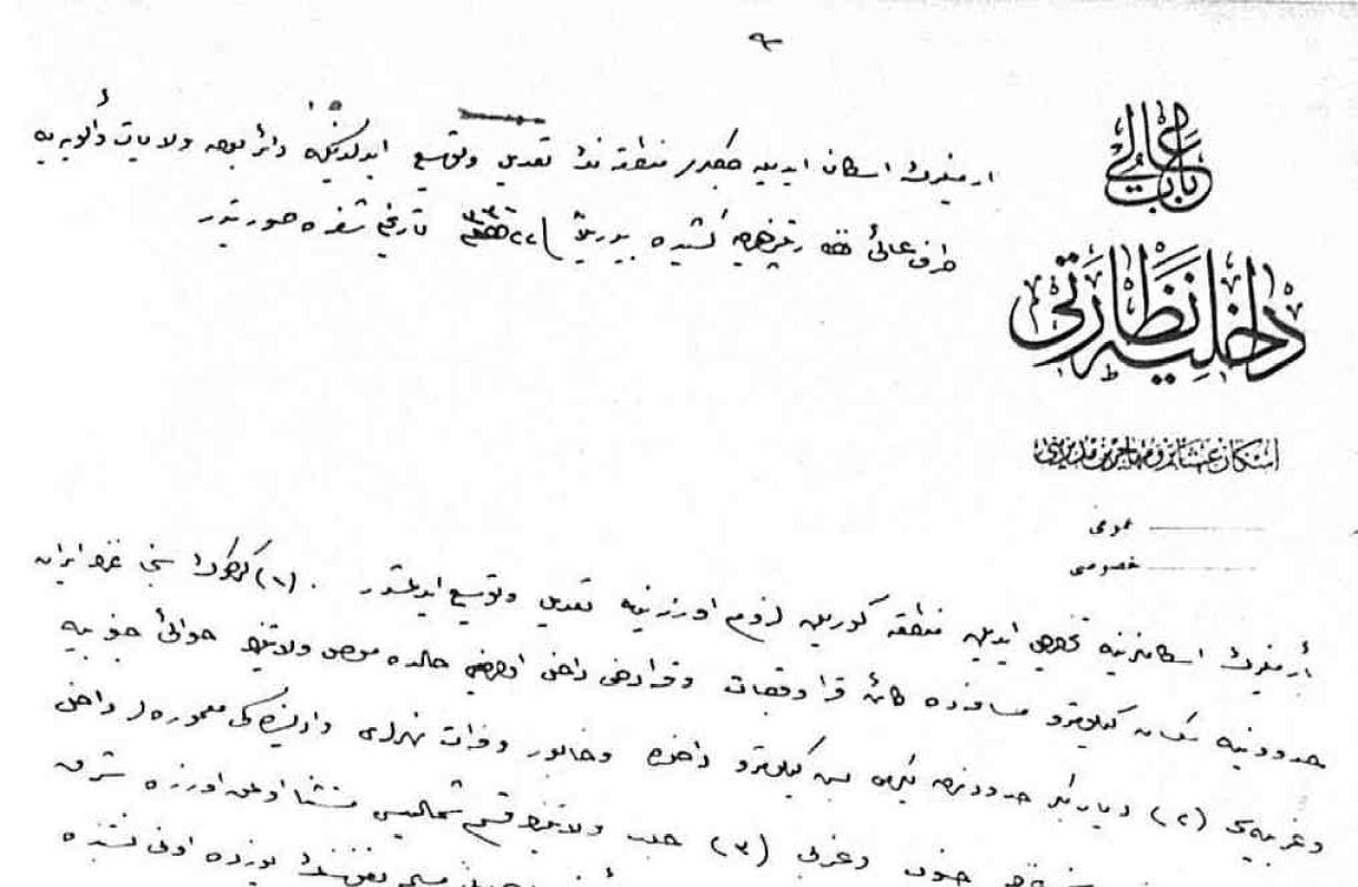 Order to relocate Armenians